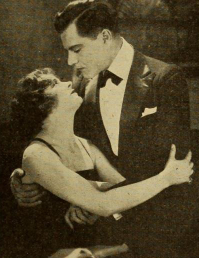 Bert Lytell and Alice Lake in a screen shot from 1919 film, "Blackie's Redemption"